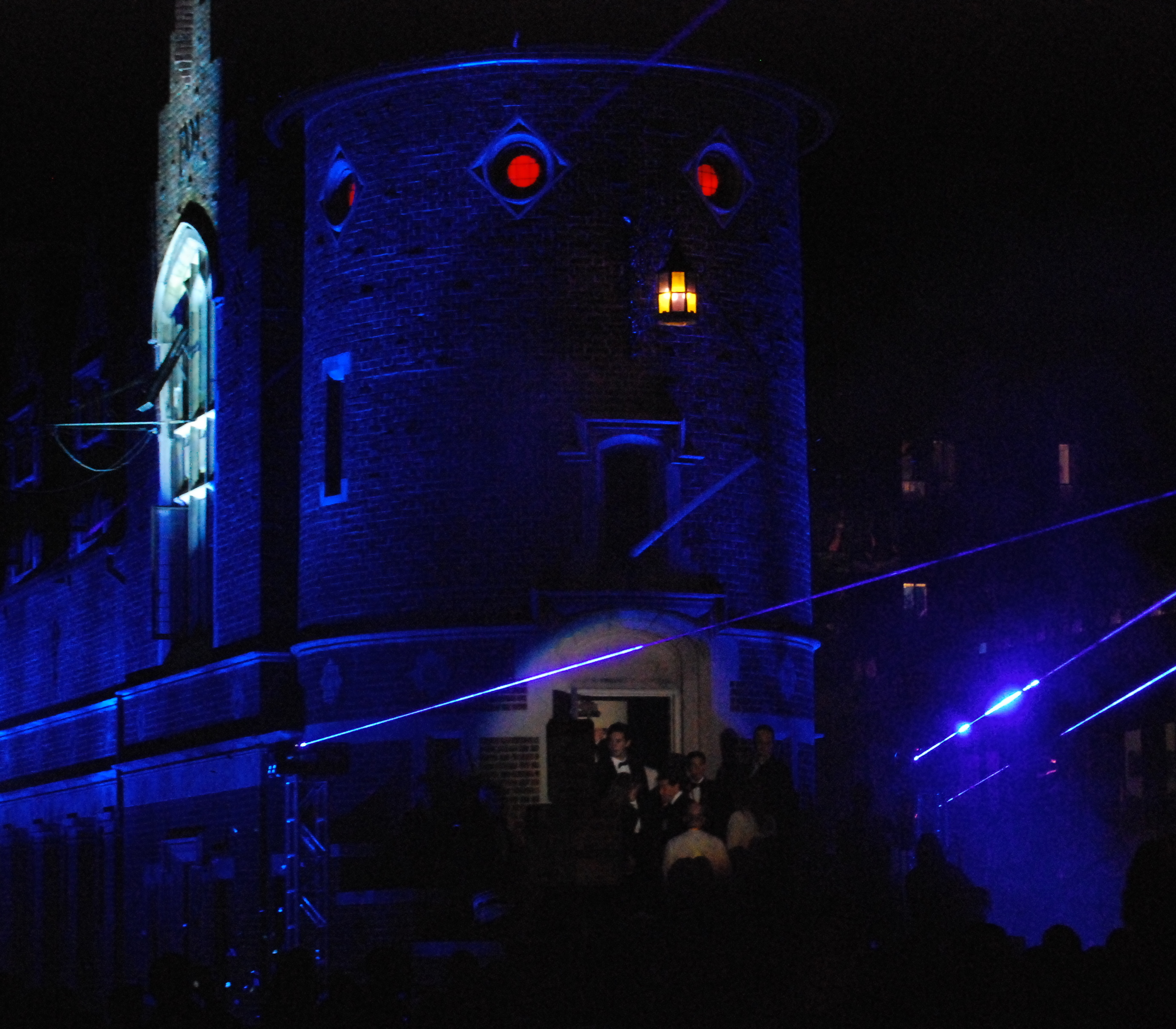 The Harvard Lampoon Castle, on the night of its 100th Anniversary celebration